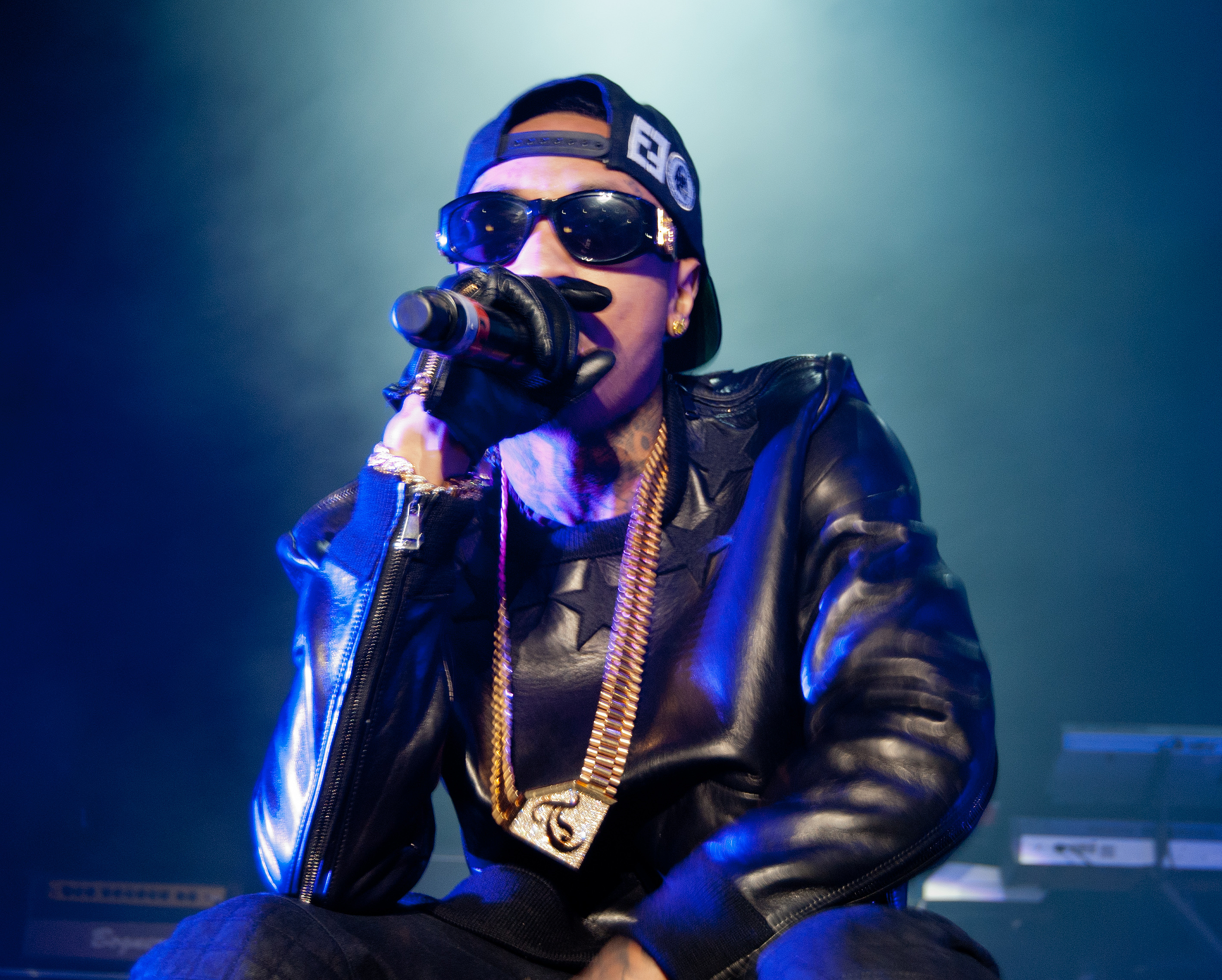 Tyga performs live in 2012